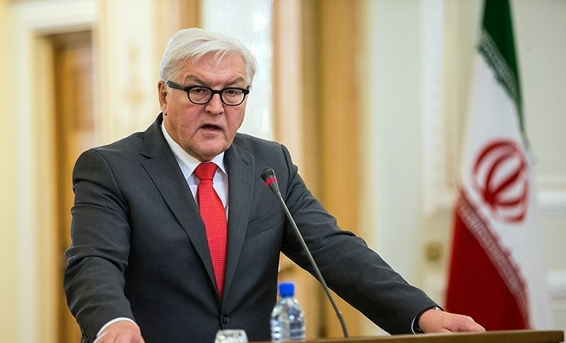 Iranian and German foreign ministers, Mohammad Javad Zarif and Frank-Walter Steinmeier meeting in Tehran